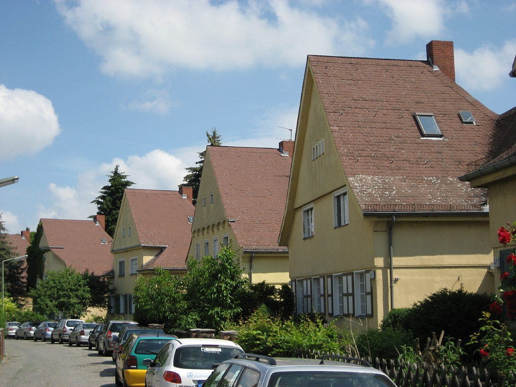 Monopol settlement